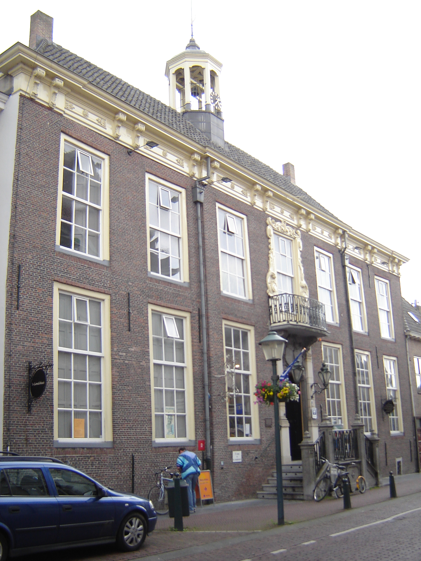 's Landshuis in Hulst. Built in 1665. Hulst, Zeeland, Netherlands.